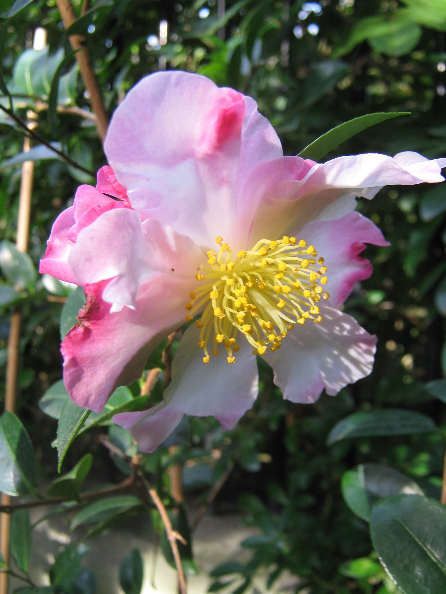 Camellia sasanqua 'Weroona' bred by E.G. Waterhouse in Sydney in 1963; photographed in St Kilda Victoria